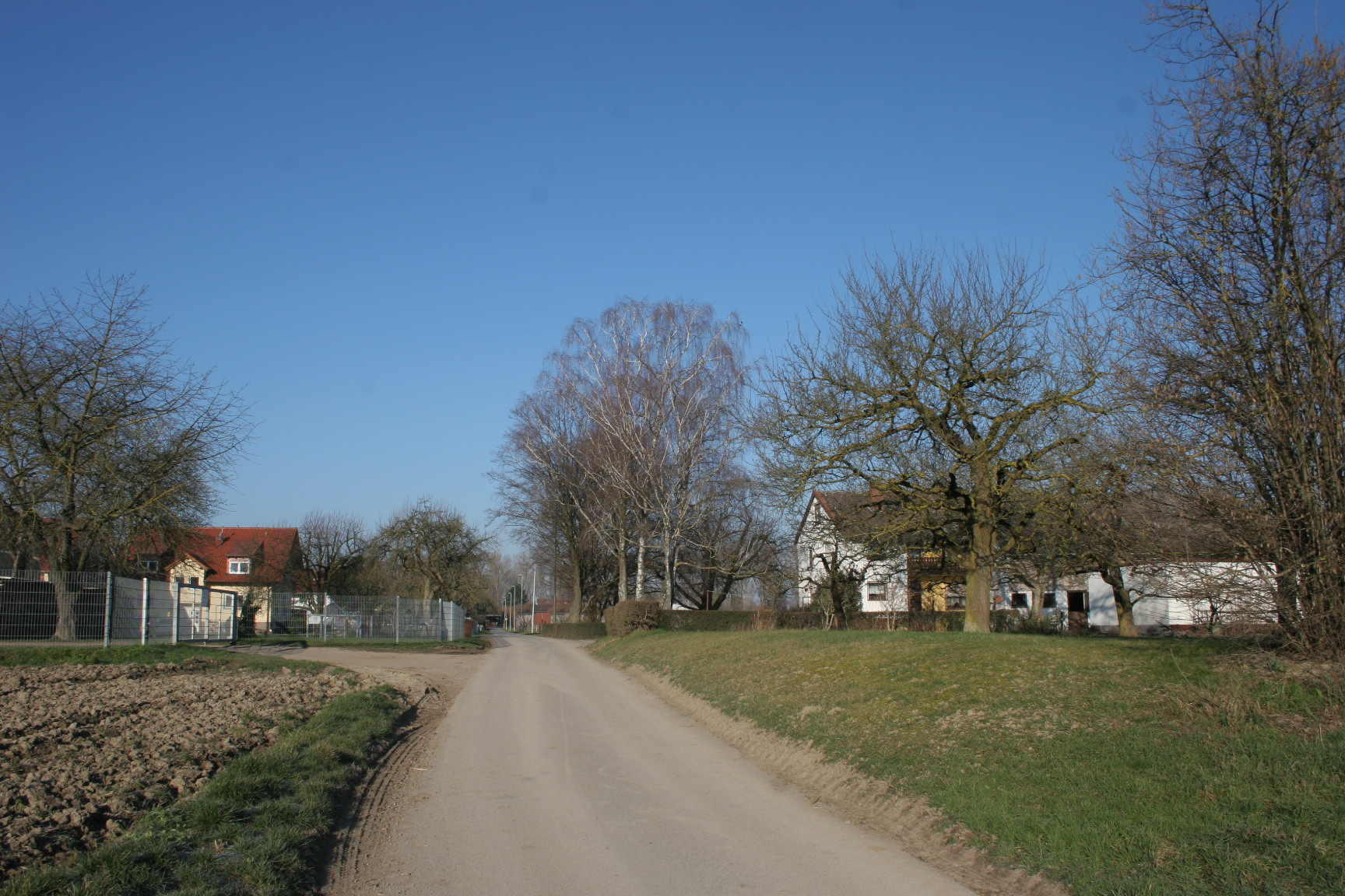 Siegelhain, southern entrance